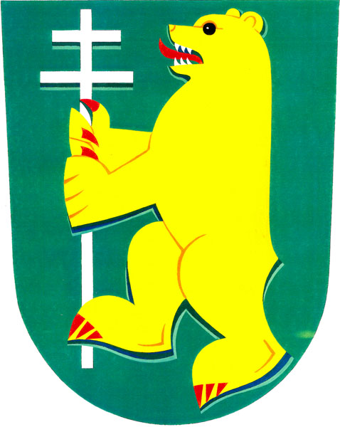 Municipal coat of arms of Osvětimany market town, Uherské Hradiště District, Czech Republic.